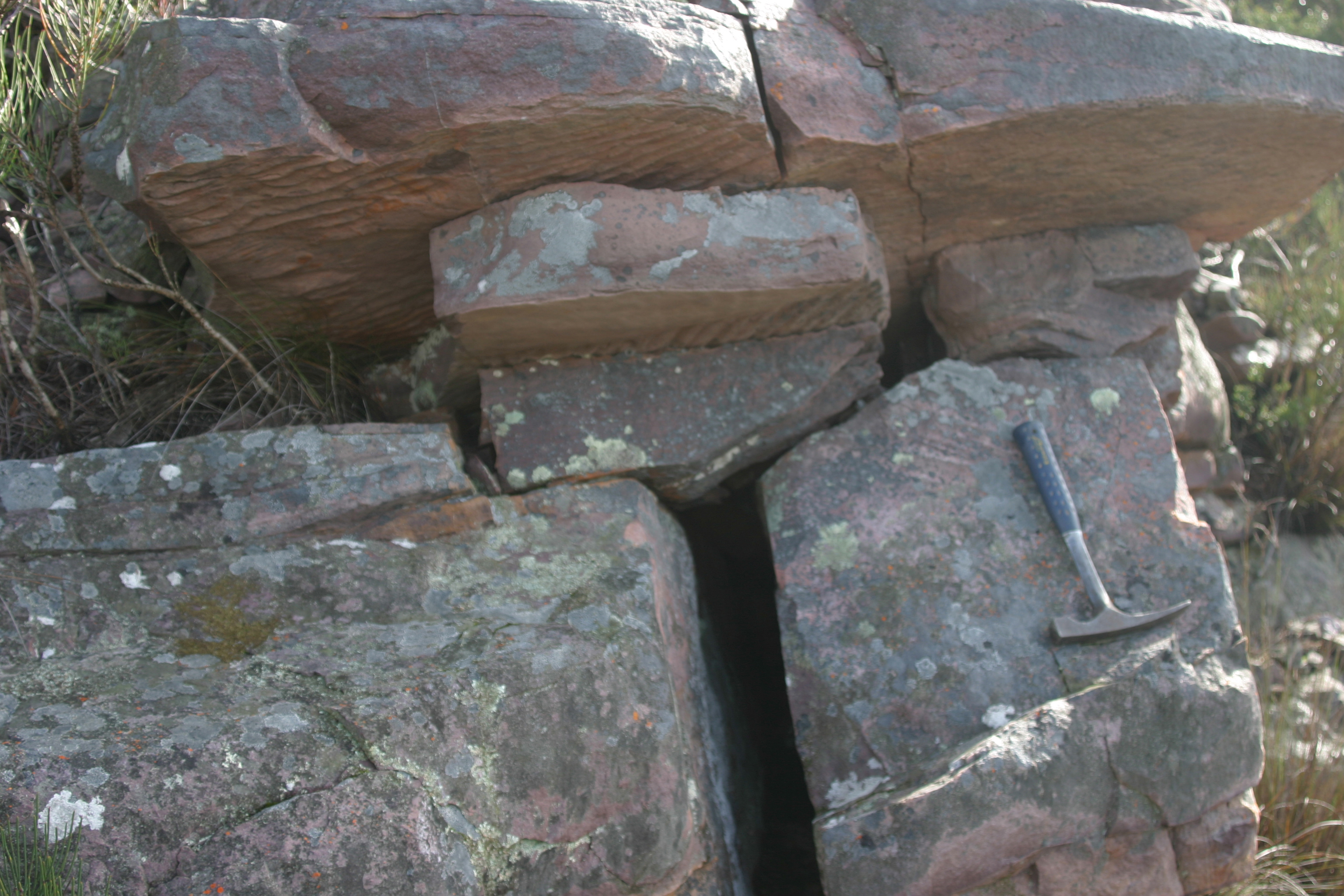 This side view of a small ancient gully represents the surface on which the trails of Myxomitodes were formed